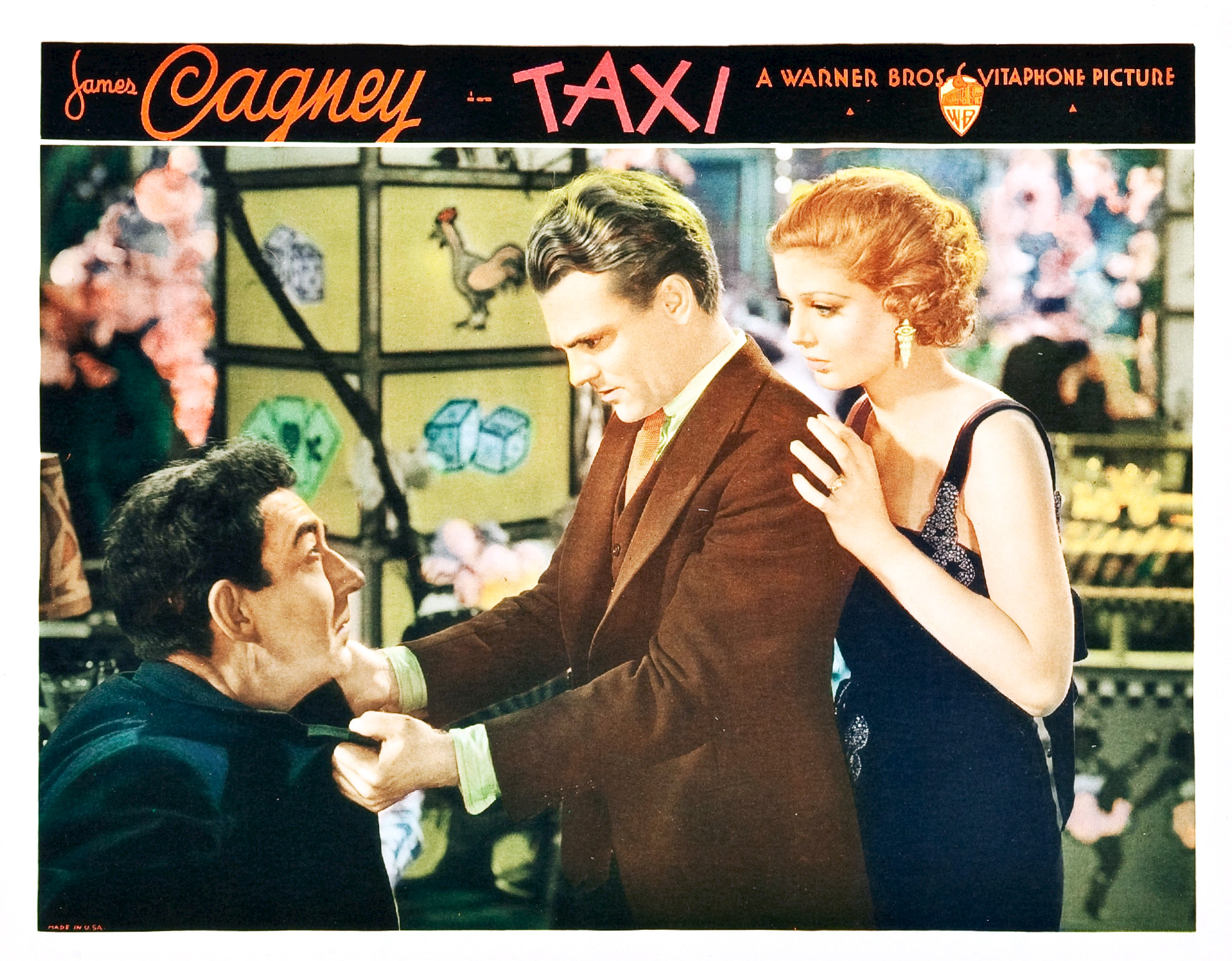 Lobby card for the American pre-Code film Taxi! 1932 with David Landau, James Cagney, and Loretta Young.